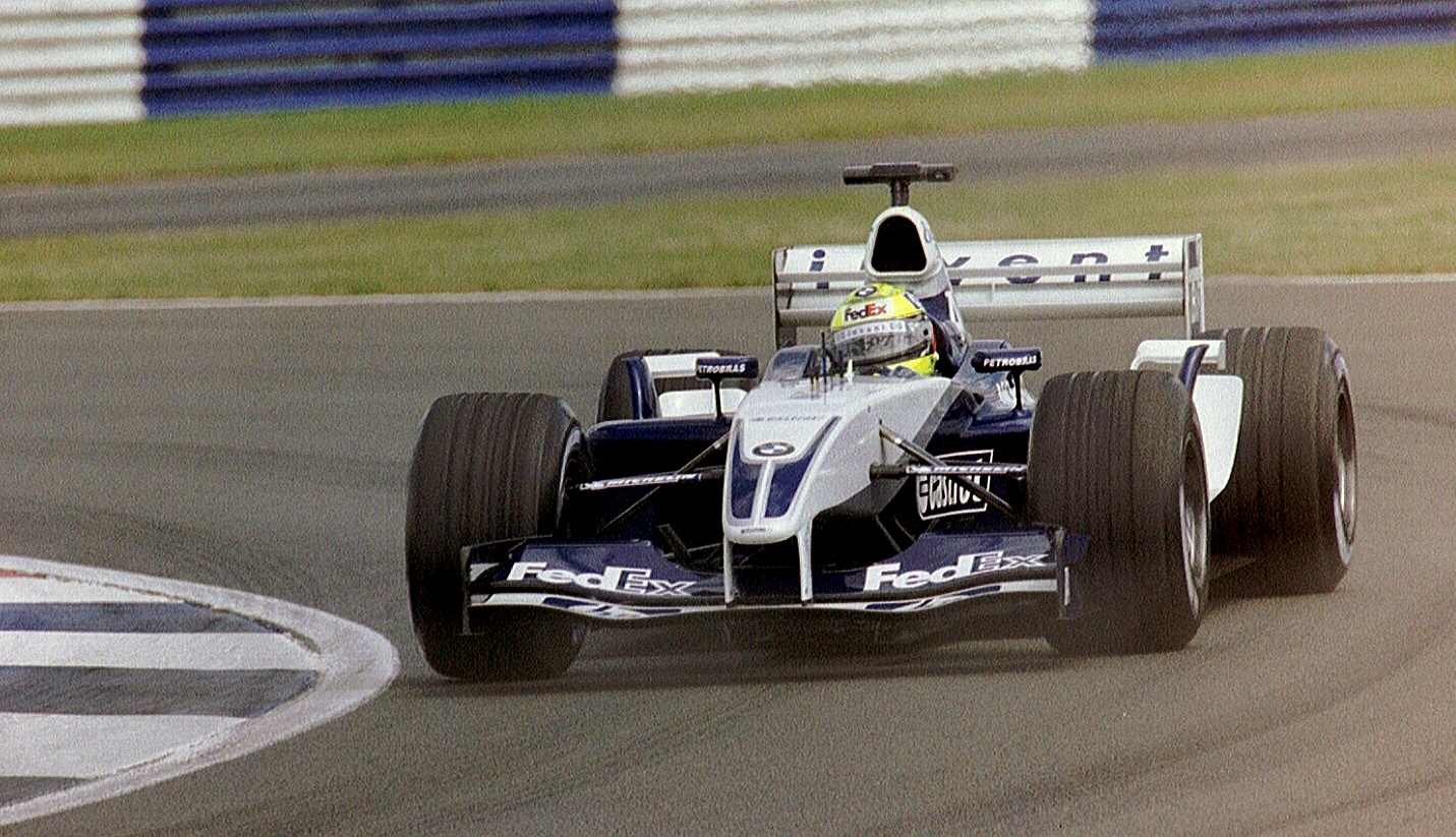 Ralf Schumacher, driving his Williams BMW at the 2003 British Grand Prix.